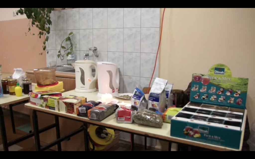 An example of the types of drinks and food that will be at a gufujo. Cookies, tea, coffee, pastries with jam, etc. Tea is the main and traditional drink.